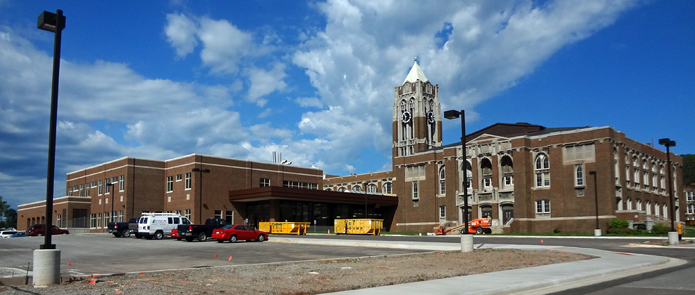 Denfeld High School and its new addition in July 2011